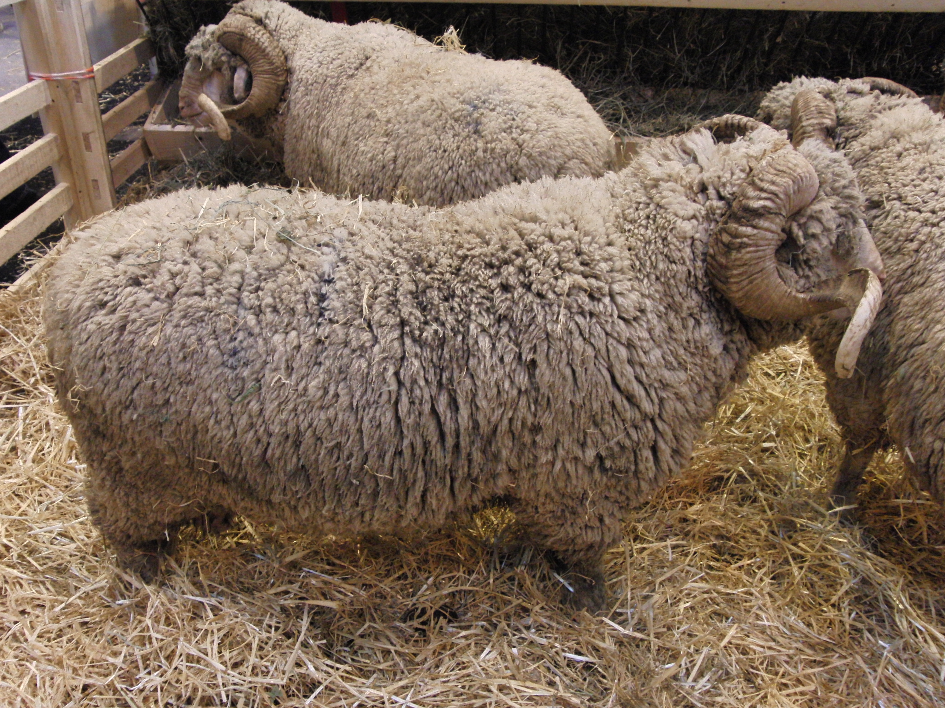 Mérinos d'Arles sheep - Salon international de l'agriculture 2011, Paris, France